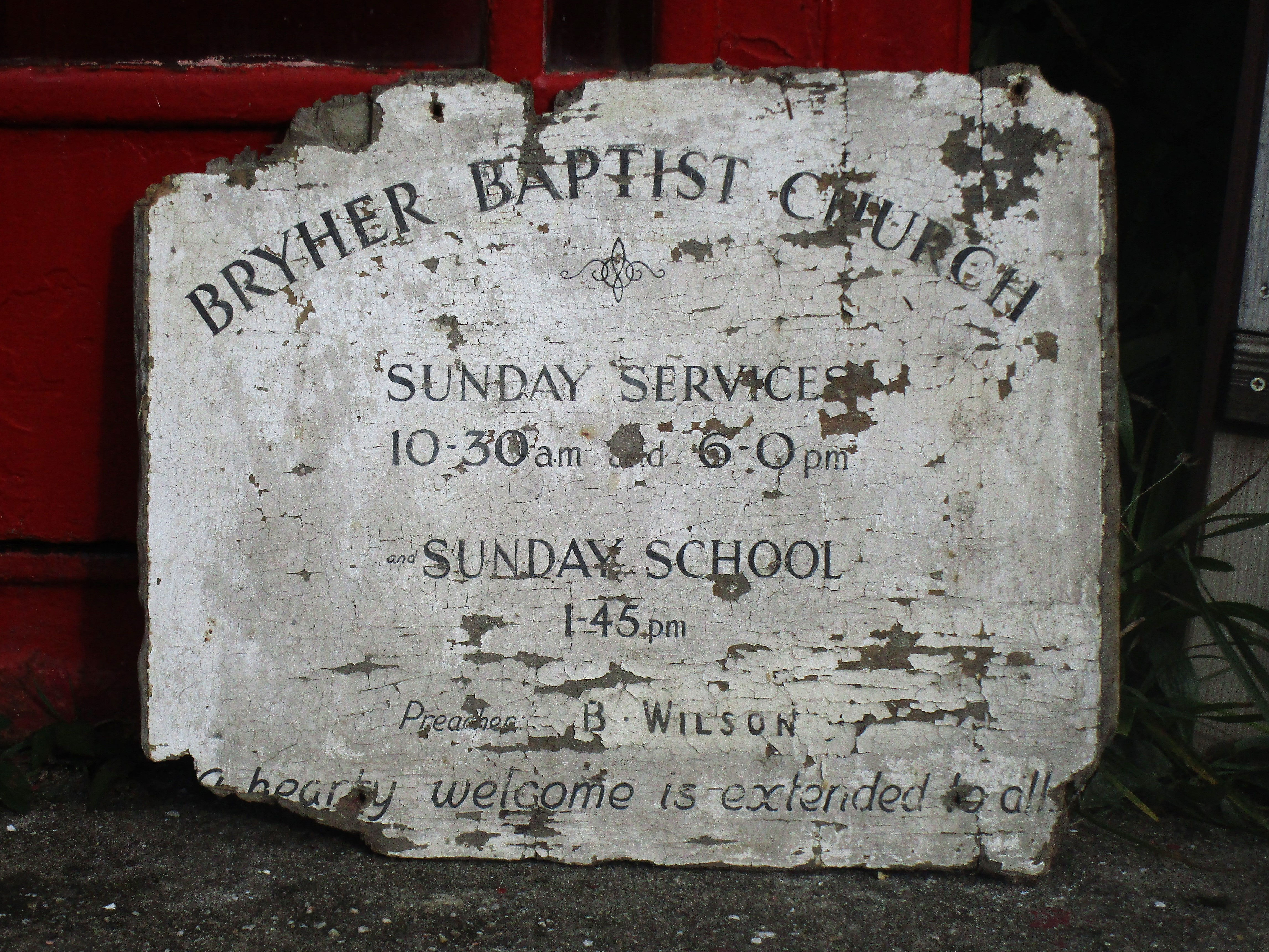 Notice board from the former Bryher Baptist Church, Isles of Scilly, displayed in Bryher's pop-up museum (September 2019).